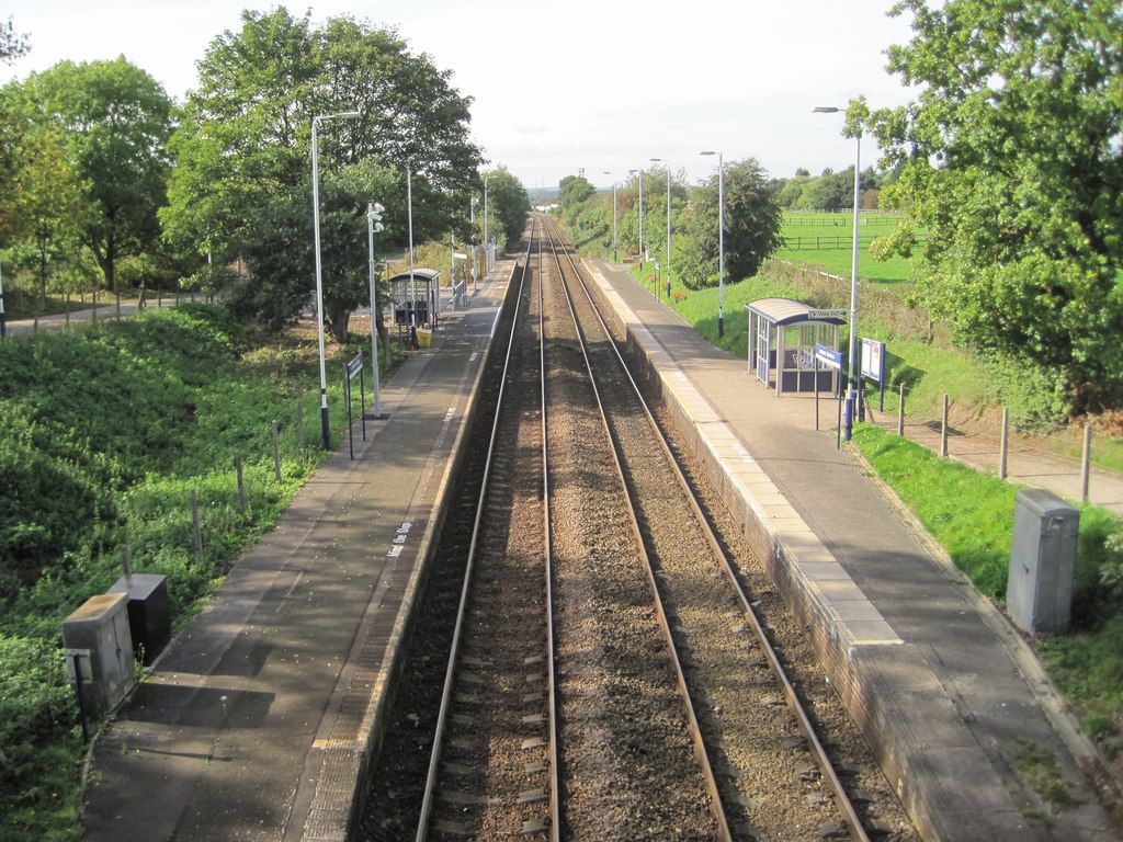 Lostock Gralam railway station, Cheshire. Opened in 1863 by the Cheshire Lines Committee on the line from Altrincham to Chester. View west towards Northwich and Chester.